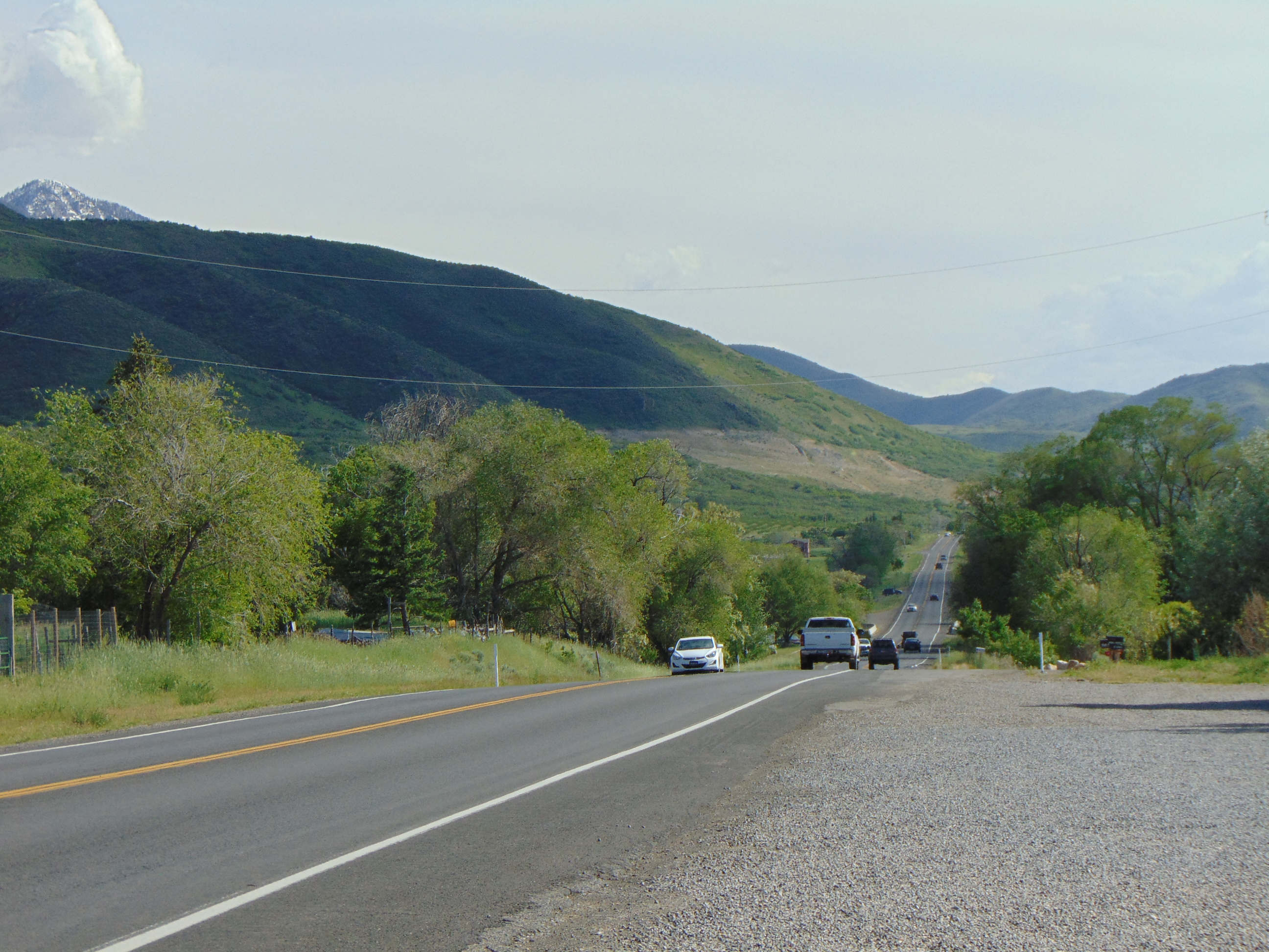 Looking south-southwest along South State Street (Utah State Route 198) in Spring Lake, Utah, May 2016